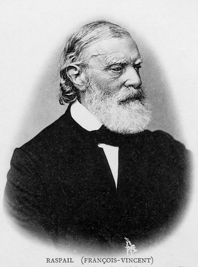 Raspail, François Vincent (1794-1878)